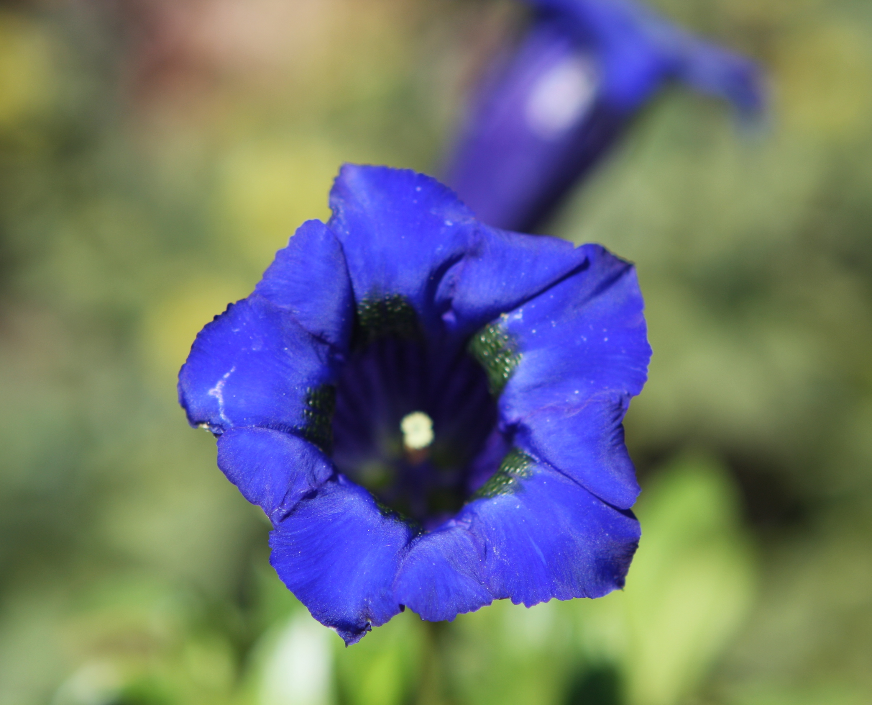 I tried to capture this Gentian, my macro shots were not very good, sine it is a deep flower, Depth of Field is an issue. maybe Gentiana acaulis 'Krebs' Gentiana_acaulis Gentianaceae lkw 021